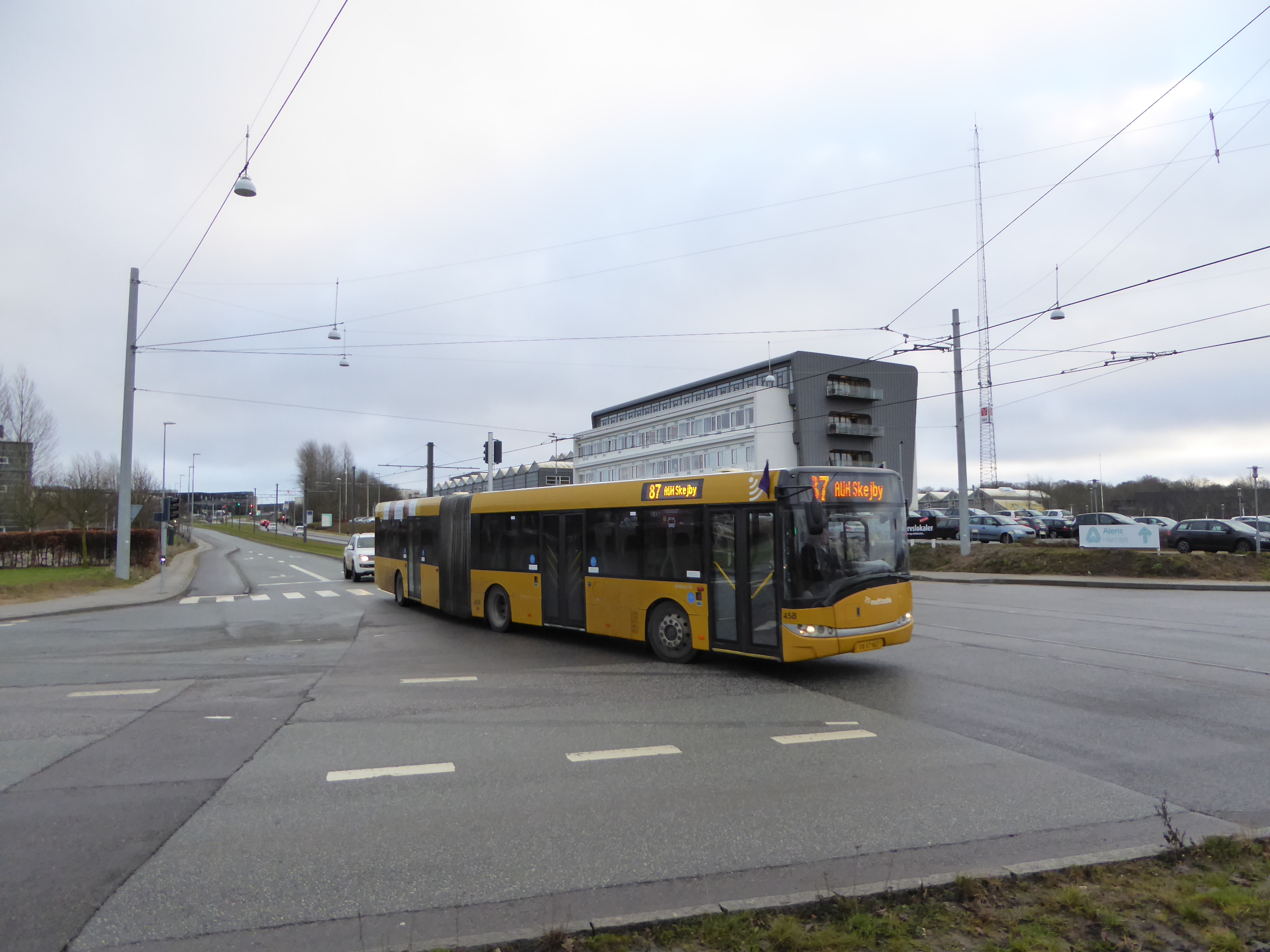 Midttrafik bus line 87 at the corner of Olof Palmes Allé andBrendstrupgårdsvej in Aarhus in Denmark. Line 87 was a temporary line which run from 17 to 21 December 2017 until the opening of Aarhus Letbane.